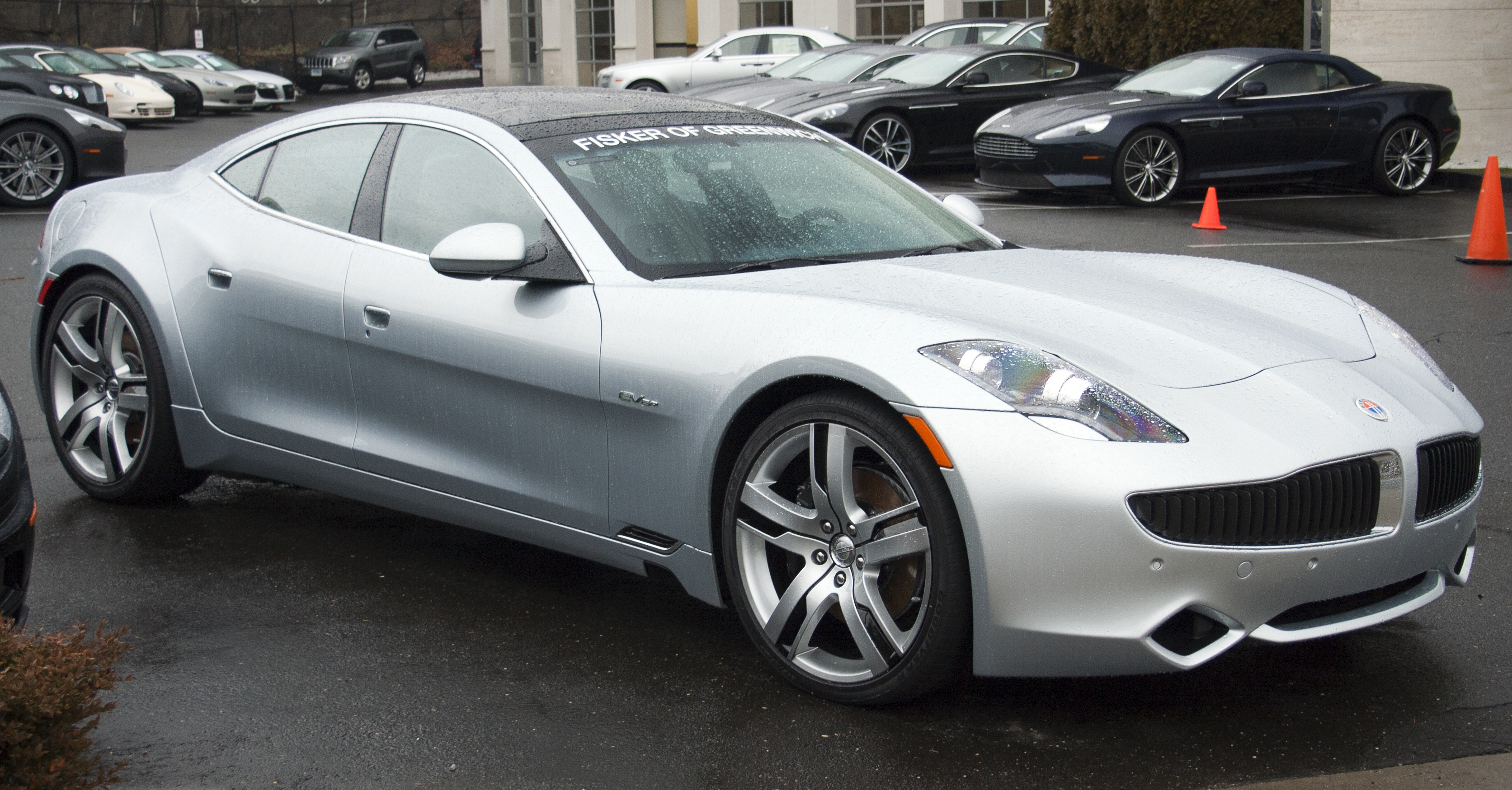 2012 Fisker EVer Karma EC in Greenwich, CT